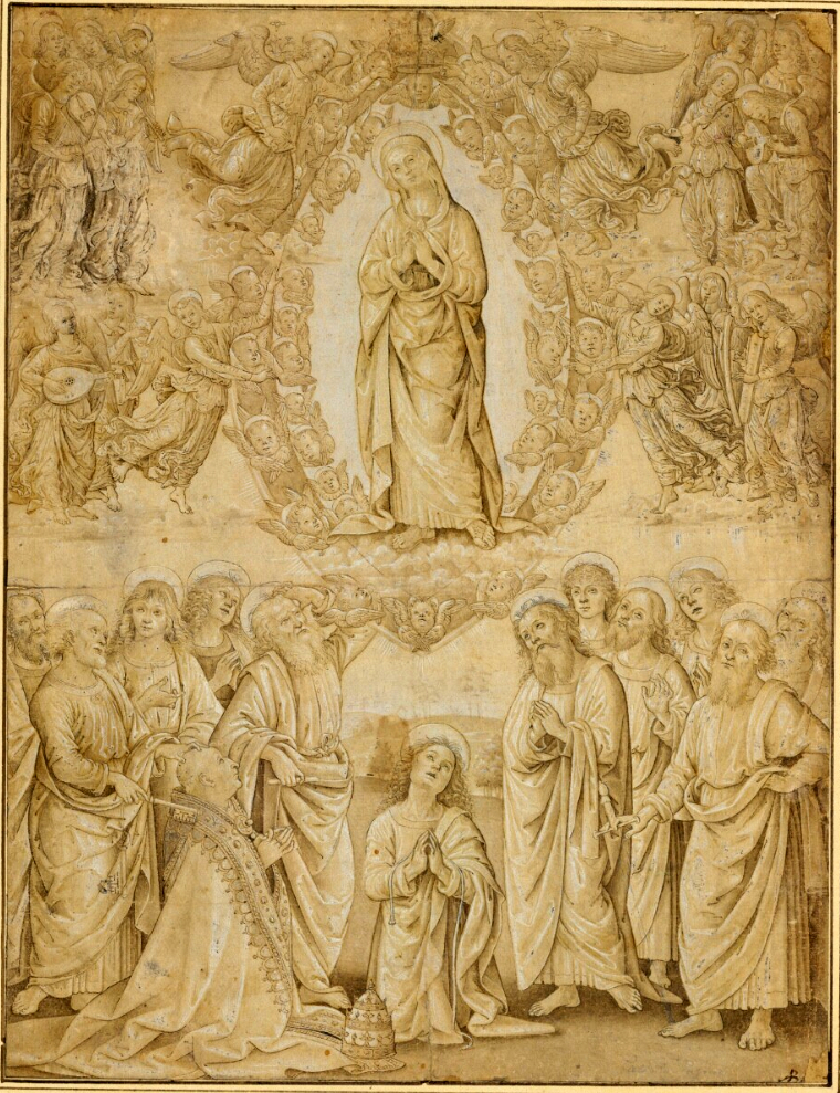 Assumption of Mary with pope Sixtus IV. Drawing of Pinturiccio's school from 1481 Perugino's destroyed fresco in Sistine Chapel.